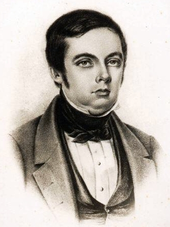 Brazilian songwriter, composer and music professor Francisco Manuel da Silva (1795-1865) by Luís Aleixo Boulanger (1798-1874)